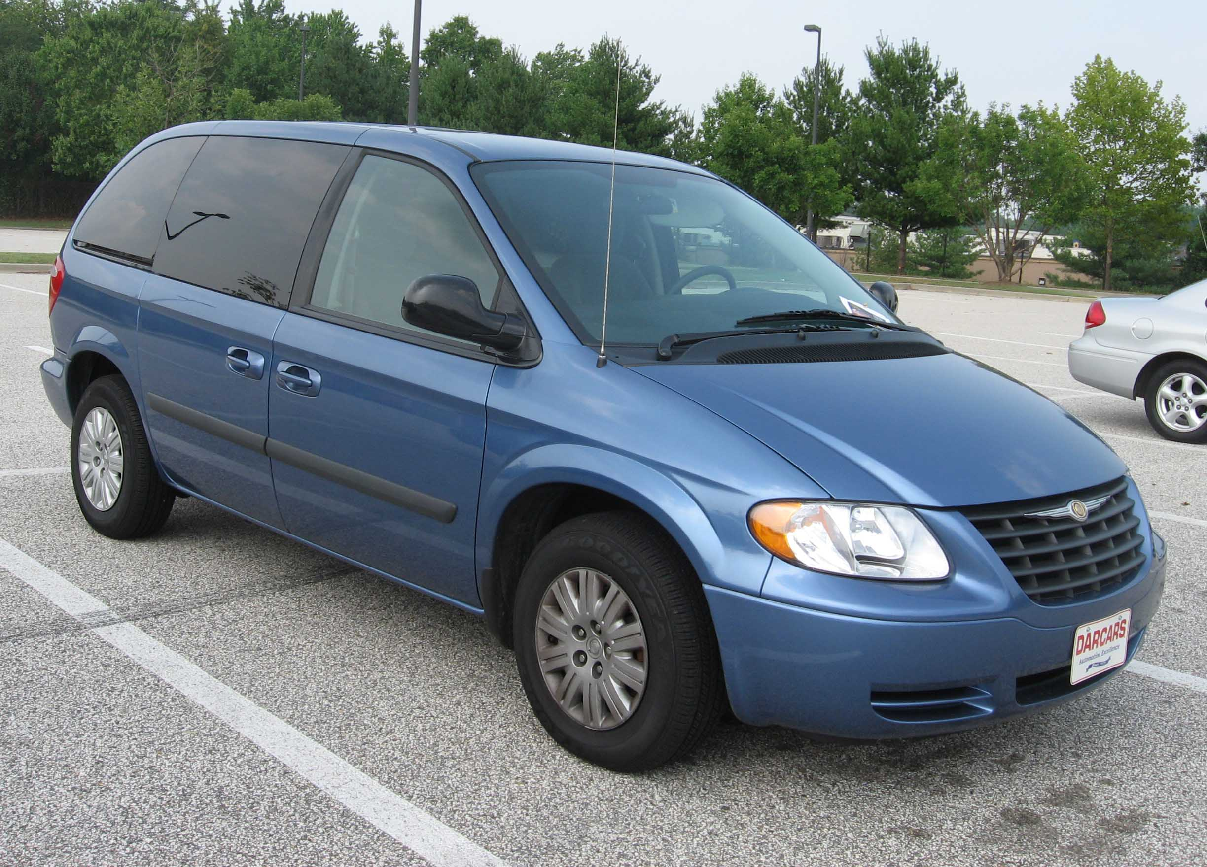 2004 Chrysler Town and Country photographed in USA.